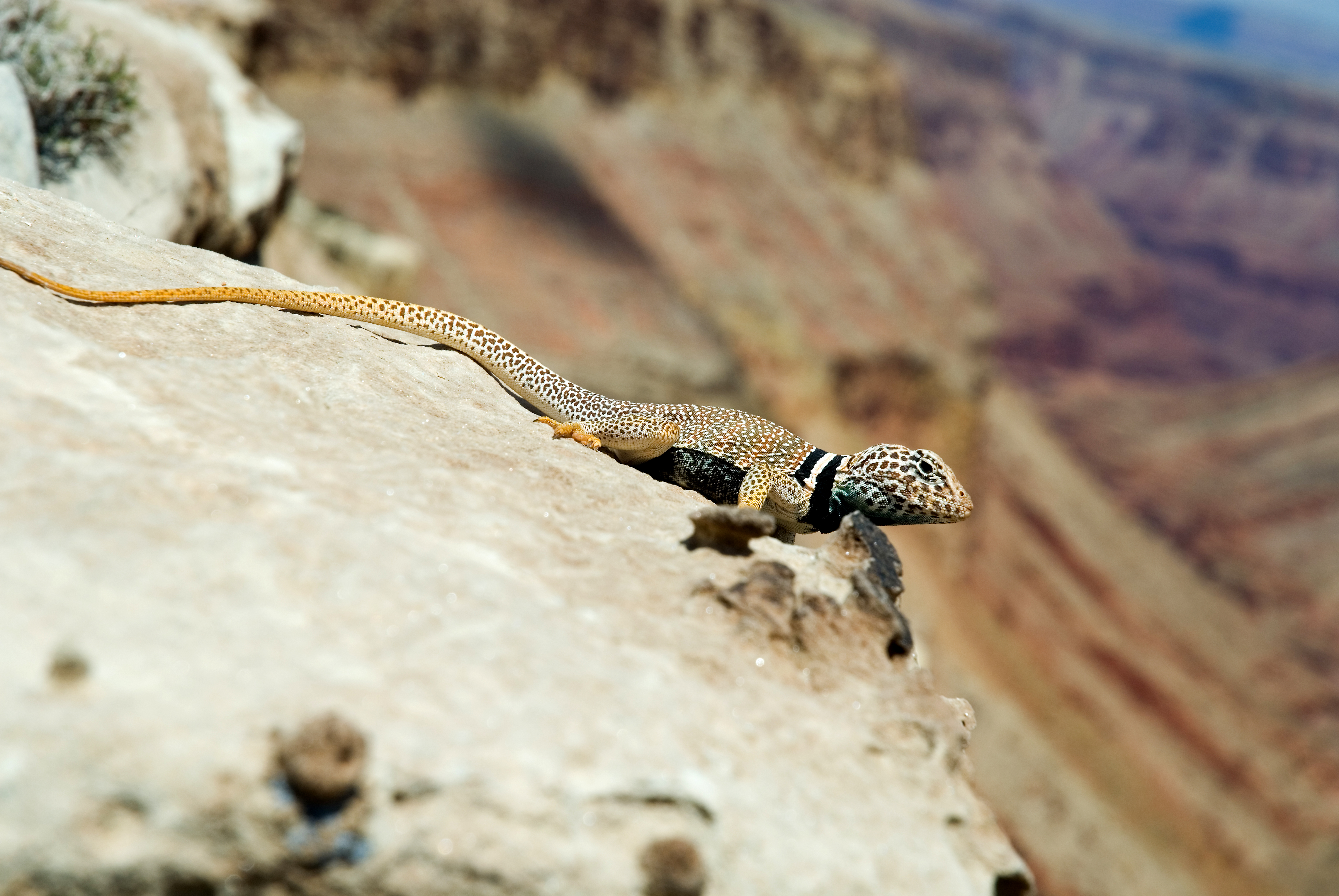 A collared lizard suns on a rock. Please give credit to: U.S. Forest Service, Southwestern Region, Kaibab National Forest.